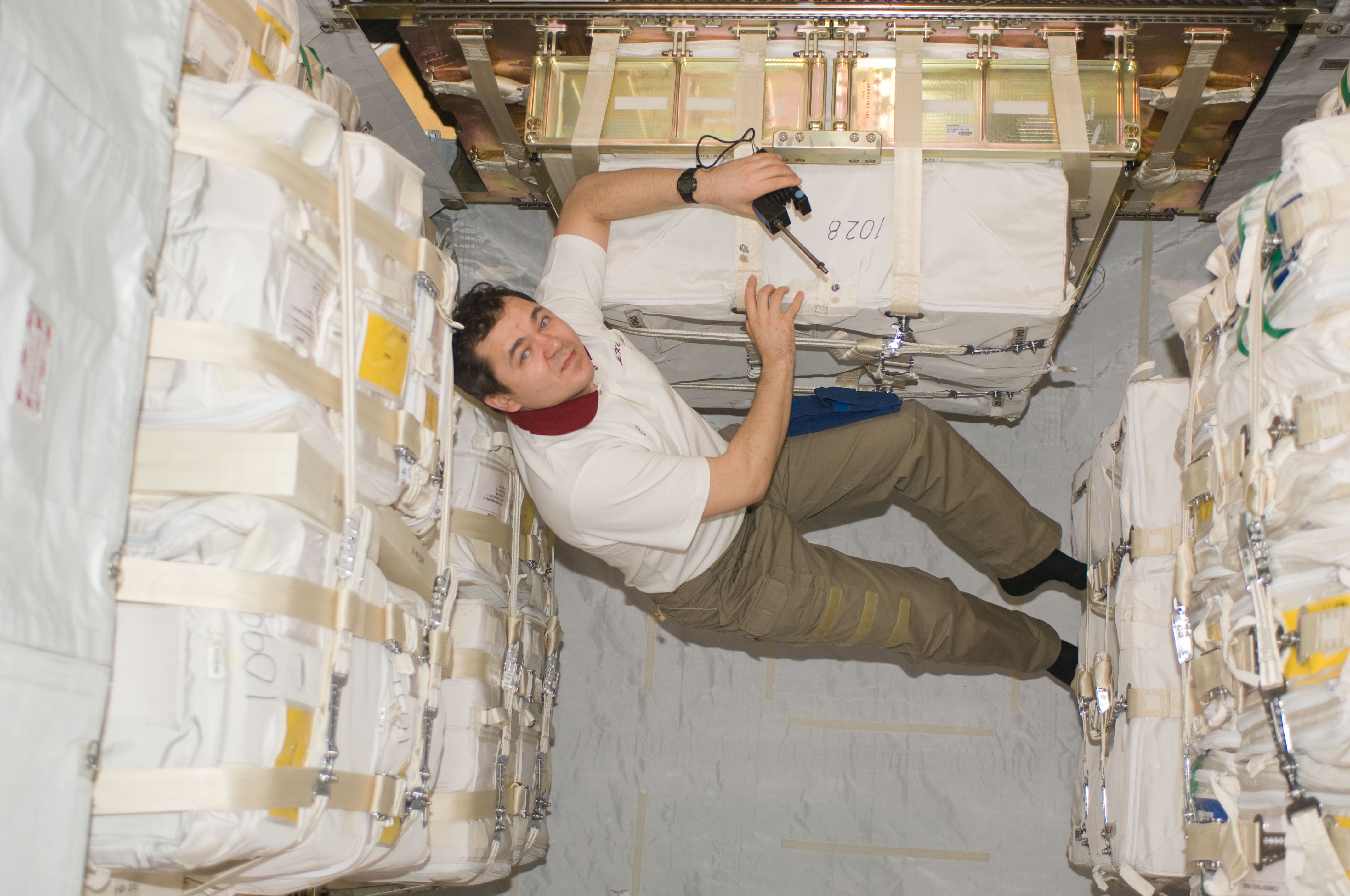 Russian cosmonaut Oleg Skripochka, Expedition 26 flight engineer, works in the Japanese Kounotori2 H-II Transfer Vehicle (HTV2) docked to the Harmony node of the International Space Station.